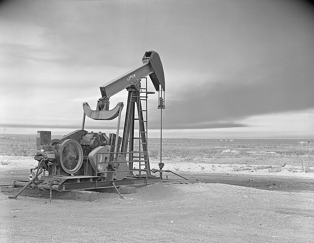 Title: Gulf Oil Corporation, Waddell Gasoline Plant, West Texas Creator: Richie, Robert Yarnall (1908-1984) Date: December 3, 1956 Part Of: Robert Yarnall Richie photograph collection Place: Crane County, Texas Physical Description: 1 negative: film, black and white; 10.2 x 13.7 cm File Name: ag1982_0234_4434_175_gulfoil_sm_opt.jpg Rights: Please cite DeGolyer Library, Southern Methodist University when using this file. A high-resolution version of this file may be obtained for a fee. For details see the web page. For other information, . For more information and to view the image in high resolution, View Robert Yarnall Richie photograph collection at